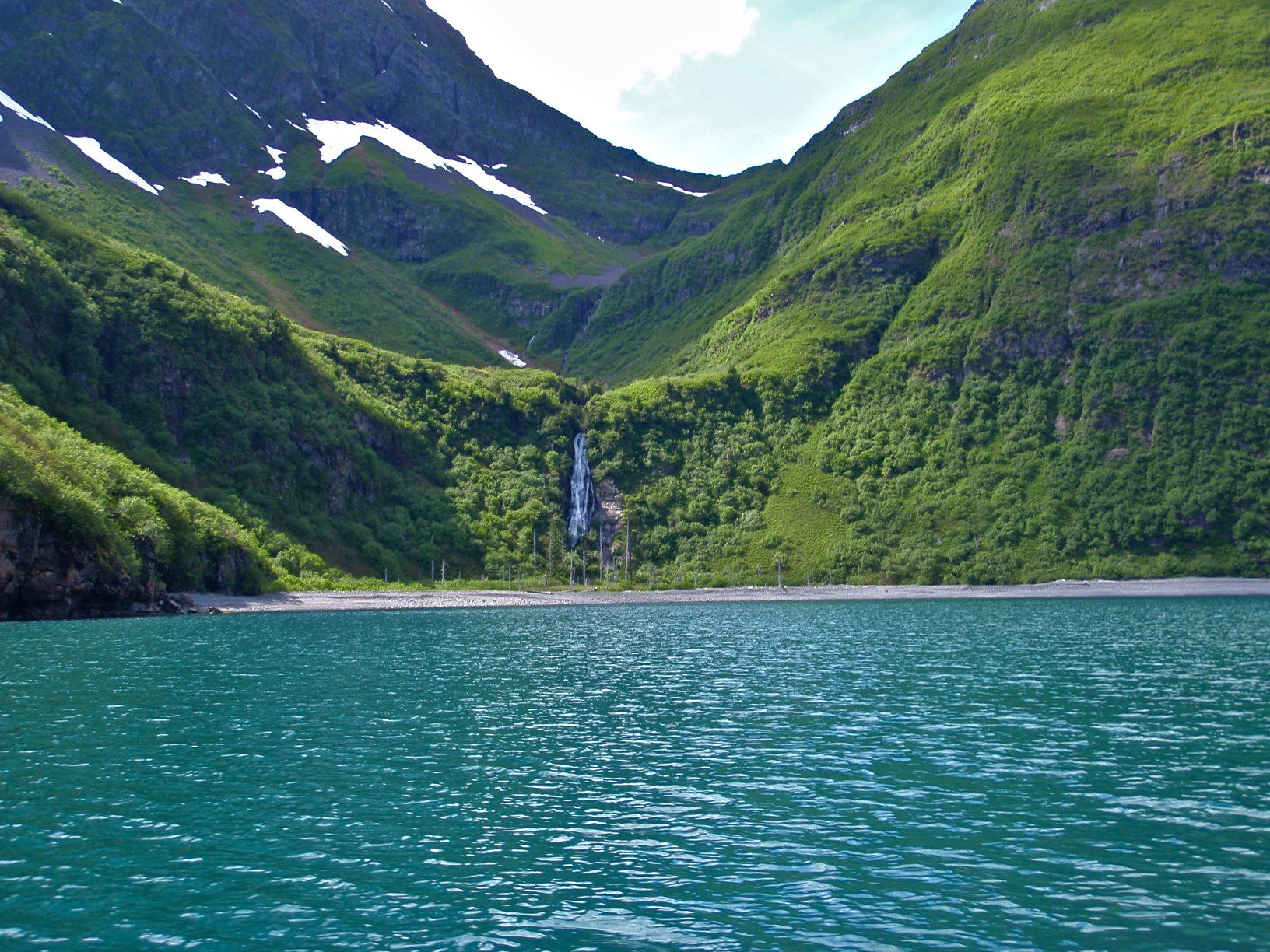 Kenai Fjords National Park